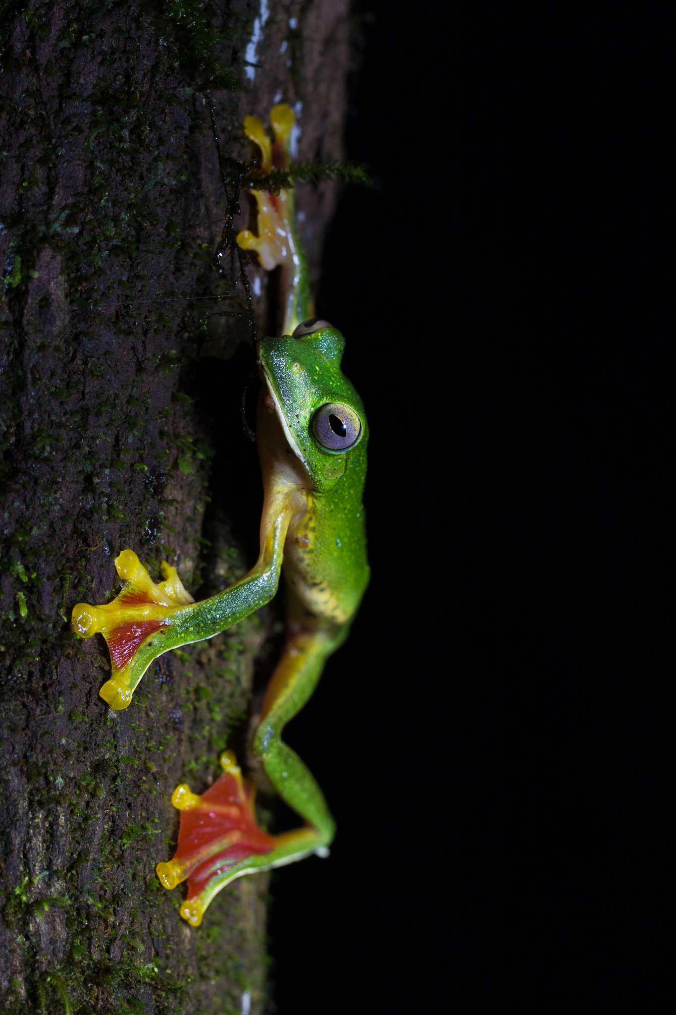 Female at Amboli Ghat